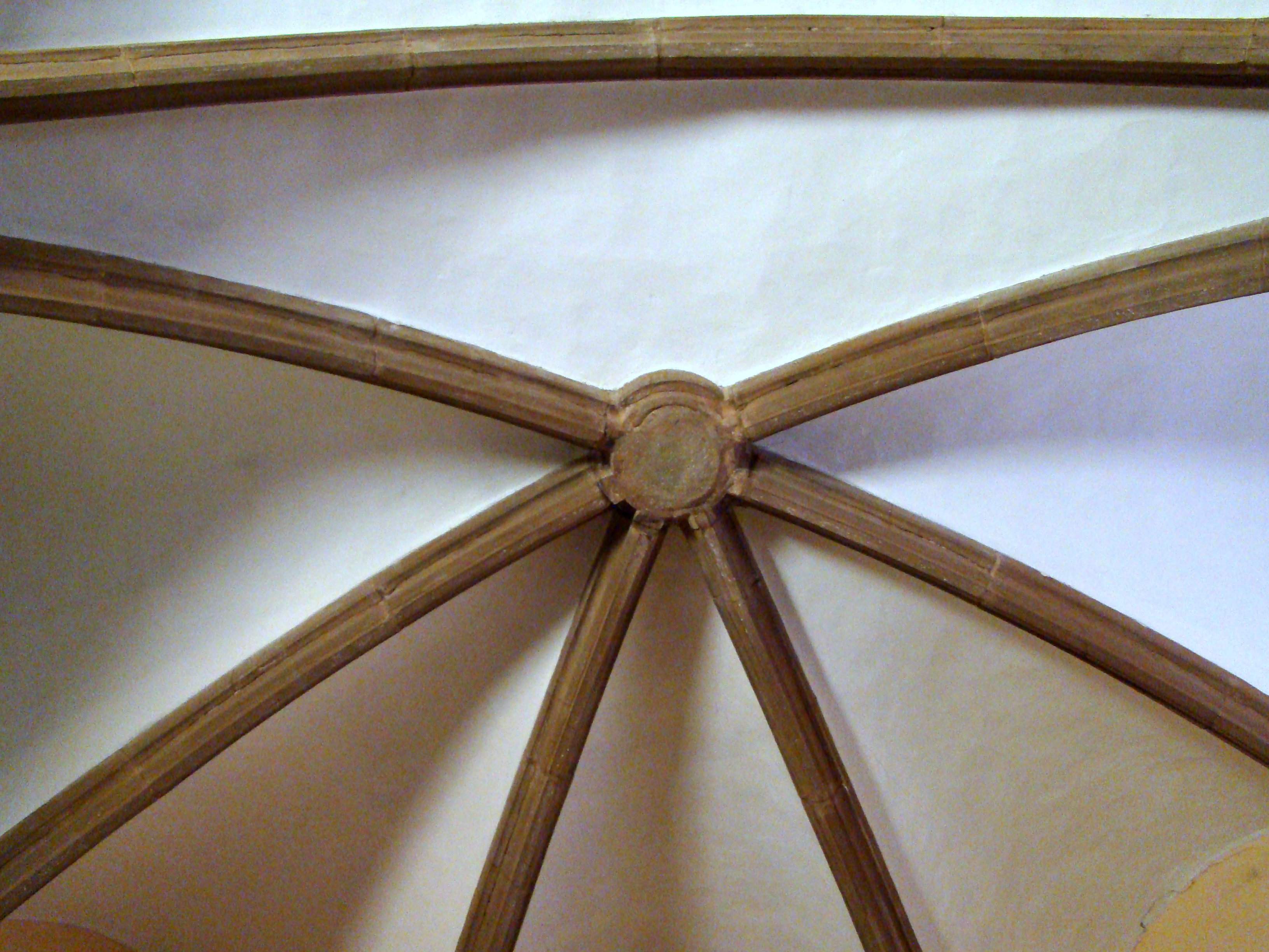 Fortified church in Vulcan, Brașov County, Romania